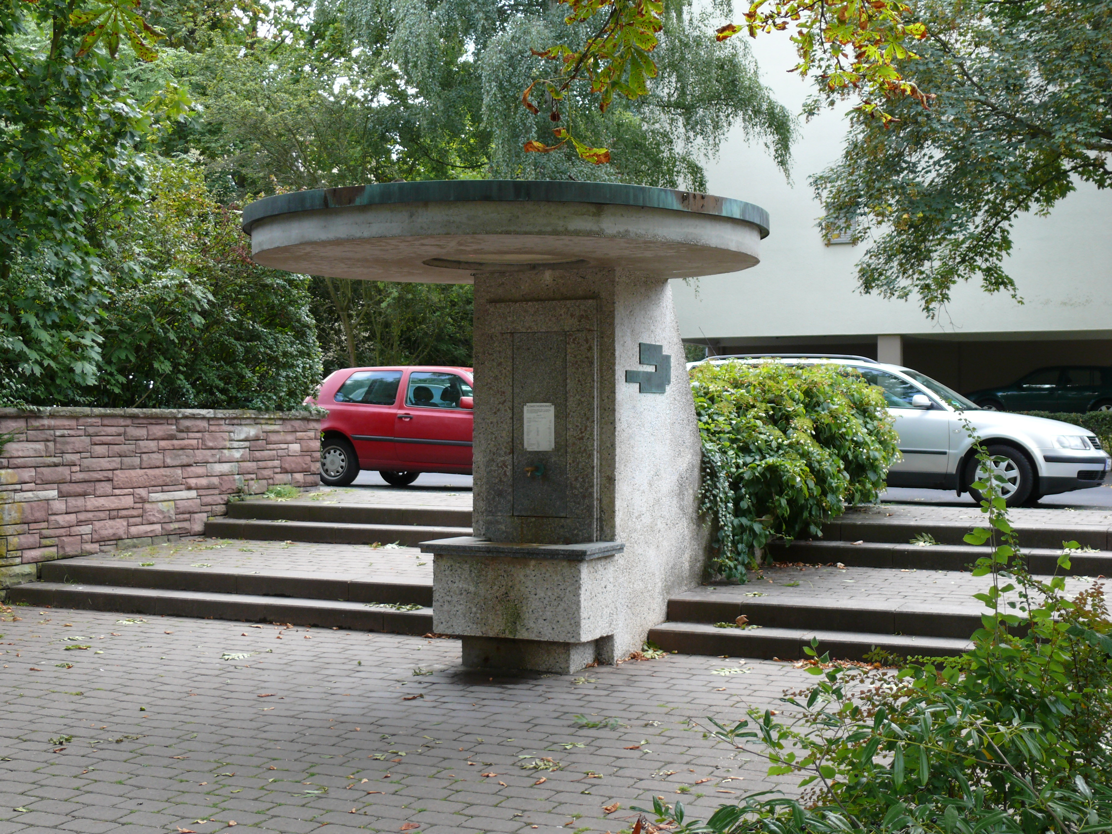 Tap station of "Elisabethen-Quelle", on the edge of the "Kurpark" in Bad Homburg, Hesse, Germany